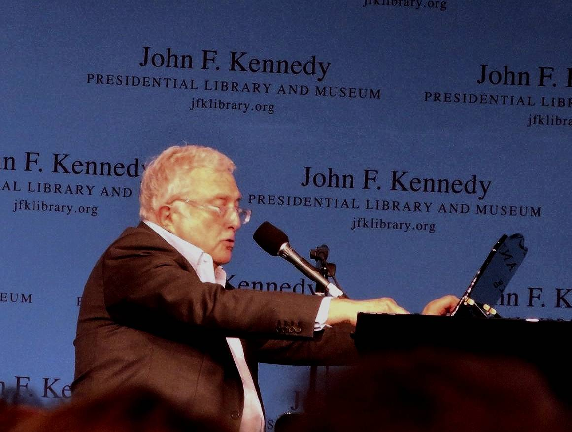 Randy Newman performs at the PEN New England Song Lyrics Award in Boston's JFK Presidential Library on June 2, 2014